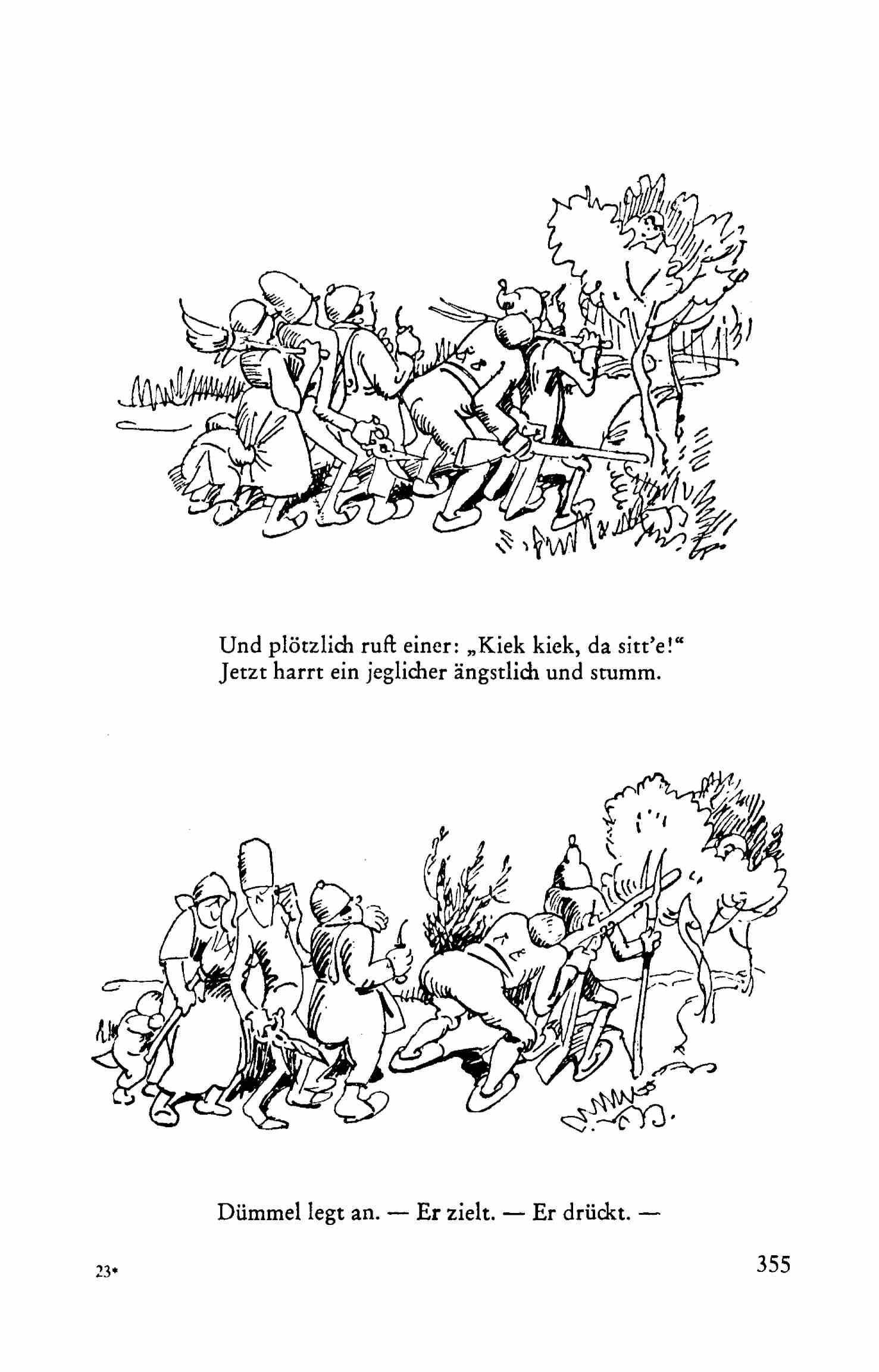 This is a scan of the historical document